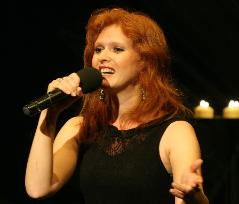 Vira Lozinsky performs at Warsaw B. Singer's Festival. Jewish State Theatre